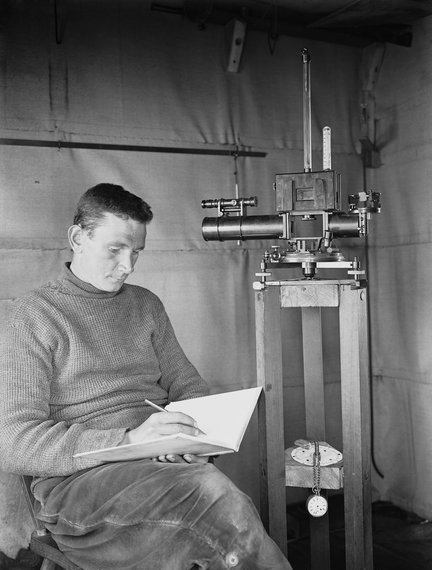 Sir George Clarke Simpson KCB CBE FRS (1878–1965), British meteorologist, member of Robert Falcon Scott's antarctic expedition of 1910-1913, the Terra Nova Expedition